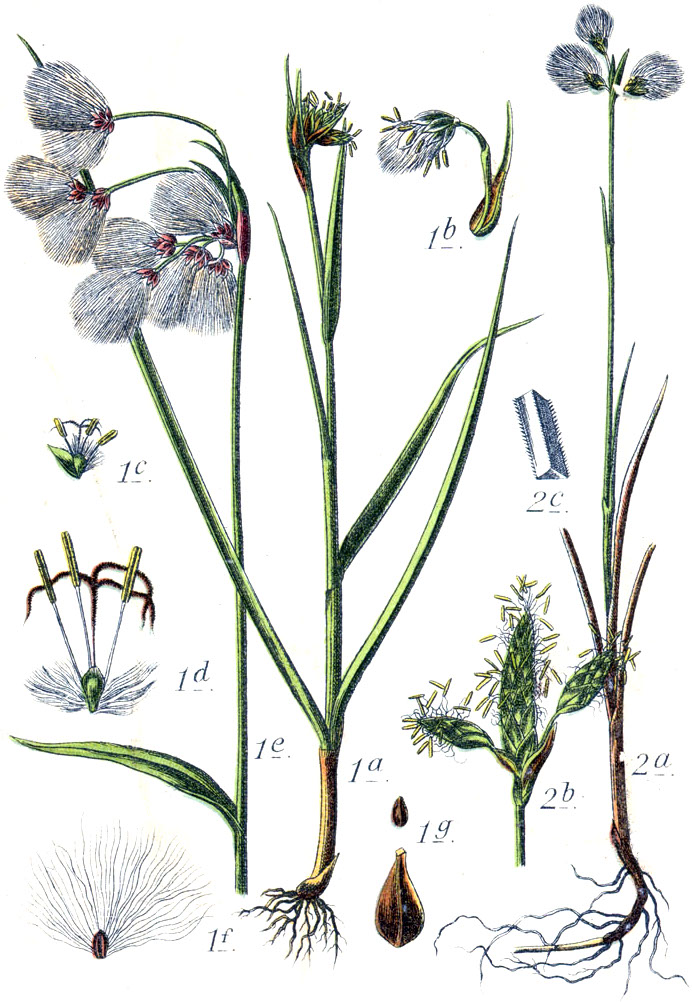 1. Eriophorum latifolium Hoppe 2. Eriophorum gracile Koch ex Roth Original Caption 1. Breitblättriges Wollgras, Eriophorum latifolium 2. Schlankes Wollgras, E. gracile